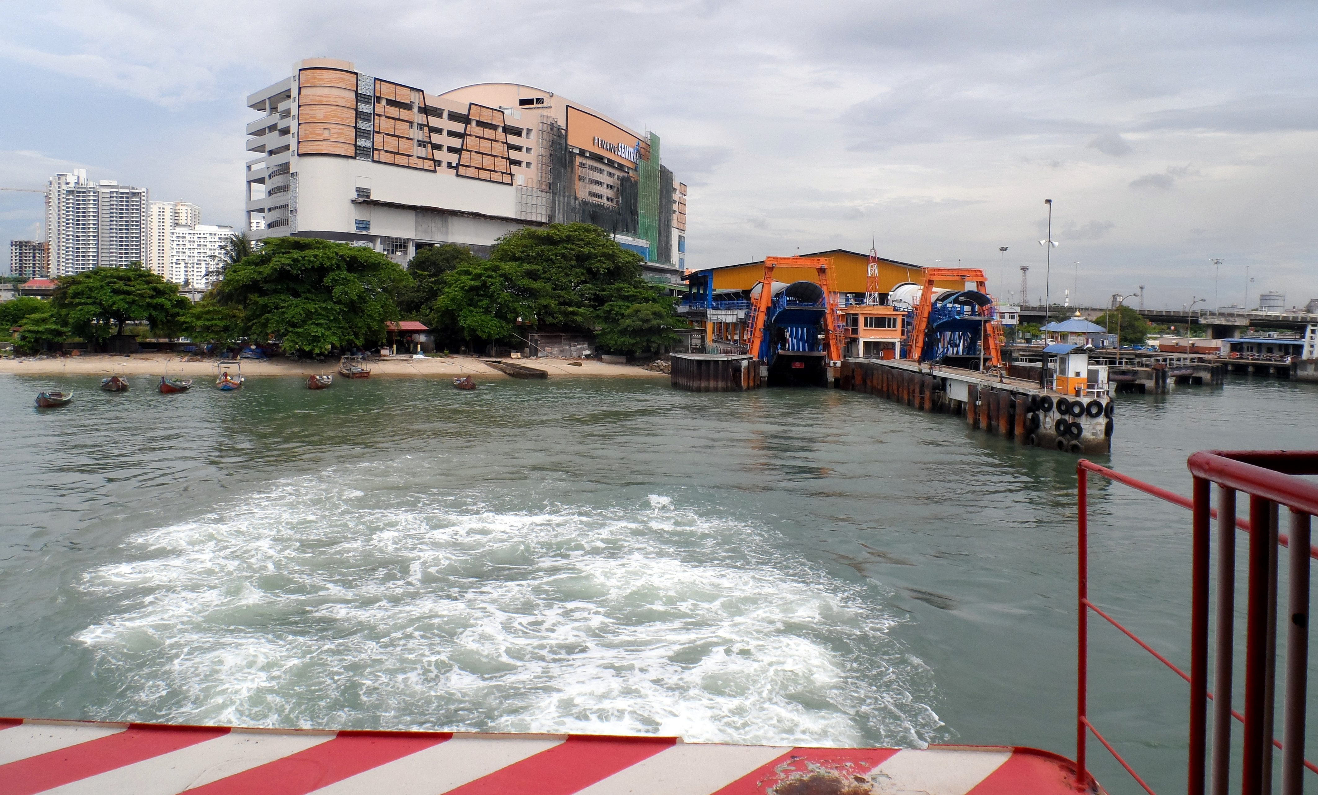 Sultan Abdul Hamid Ferry Terminal in Butterworth, Penang, Malaysia